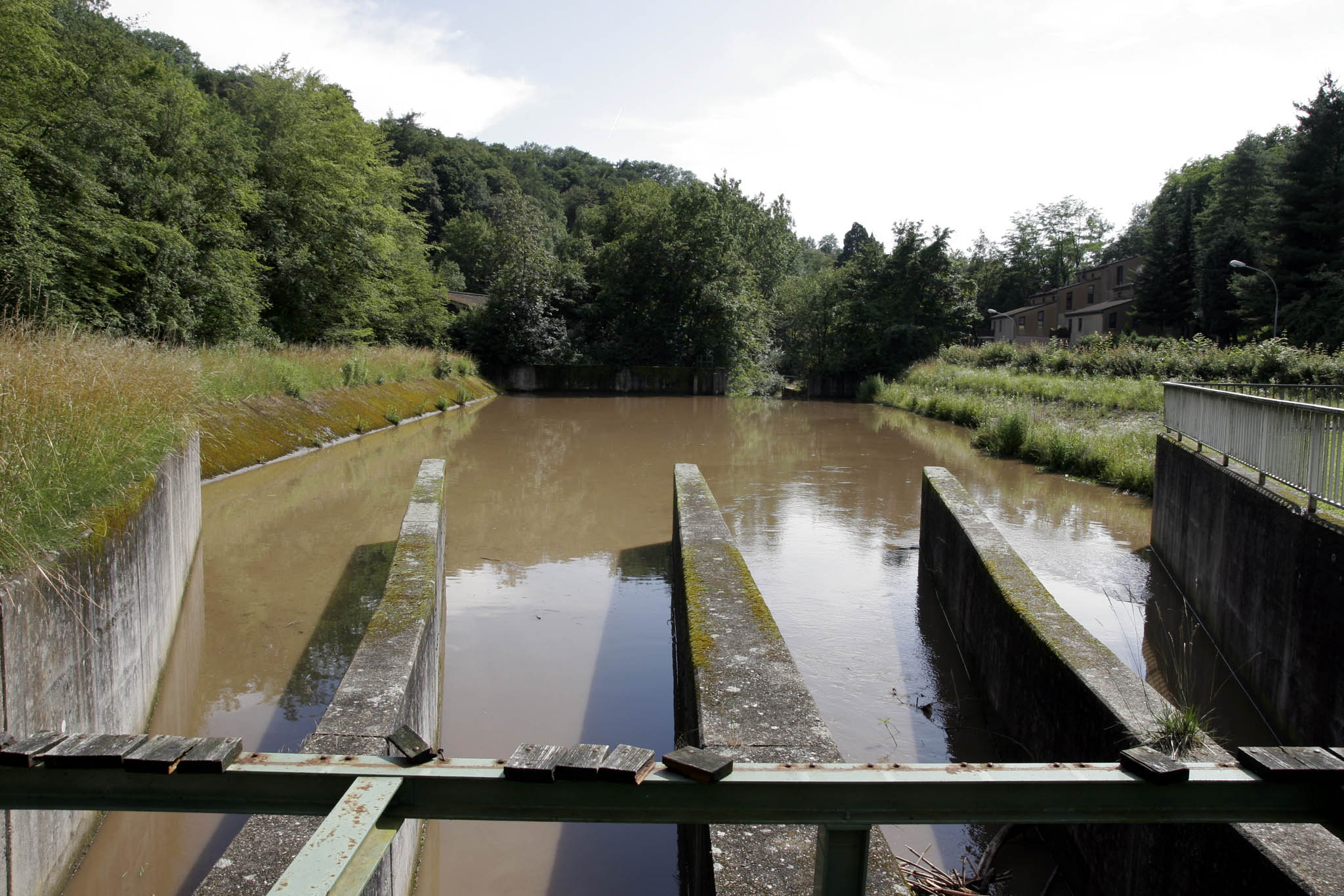 The Lauter (Winkelbach) creek in South-Hesse.